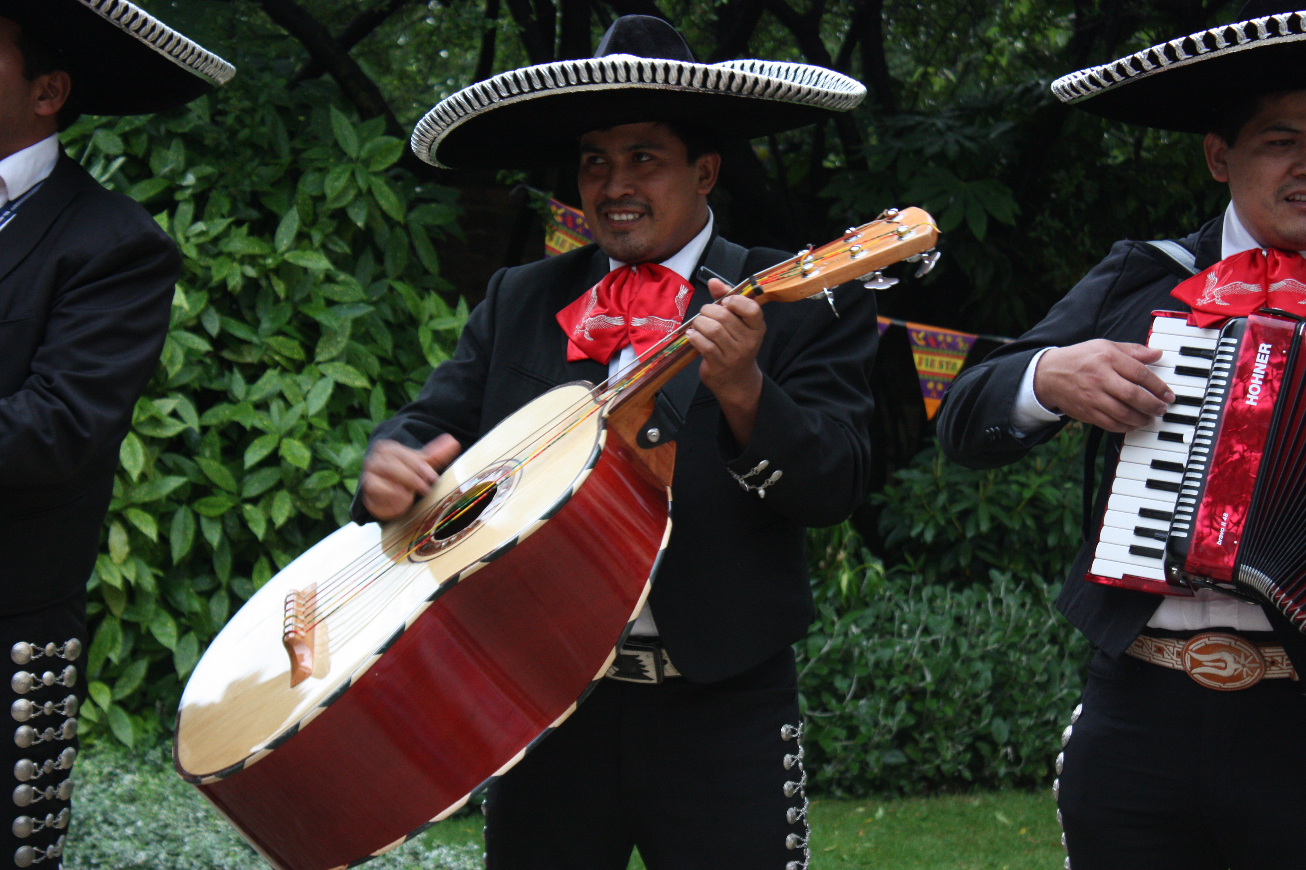 Guitarron.